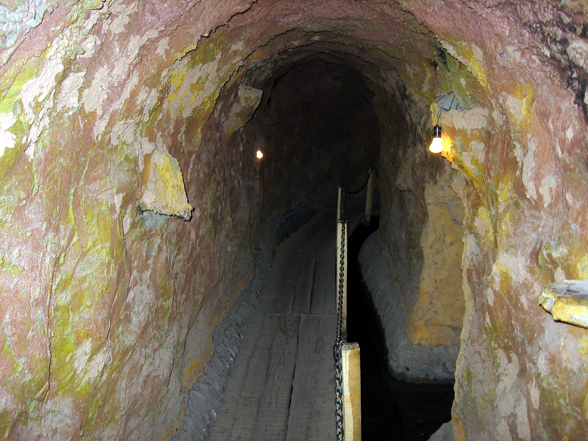 Karez: is the name commonly used in Central Asia for the irrigation system also know as Qanat. Photo from a museum dedicated to karez at Turfan, Autonomous Region of Xinjiang, China.